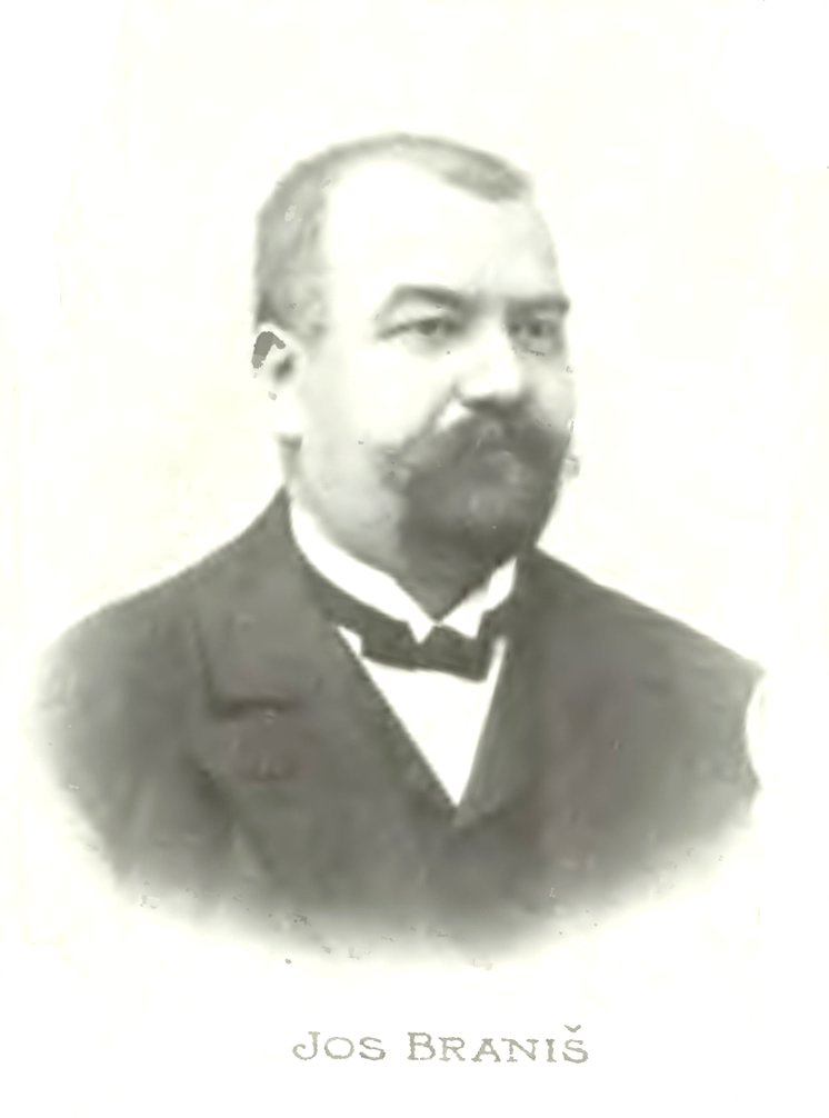 Portrait of Josef Braniš (1853-1911), Czech high-school teacher, historian and archaeologist.